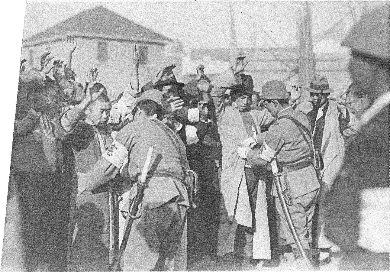 Check of thousands of Chinese regular soldiers in Nanking Castle who tried to hide themselves in refugees and escape right after the fall of Nanking